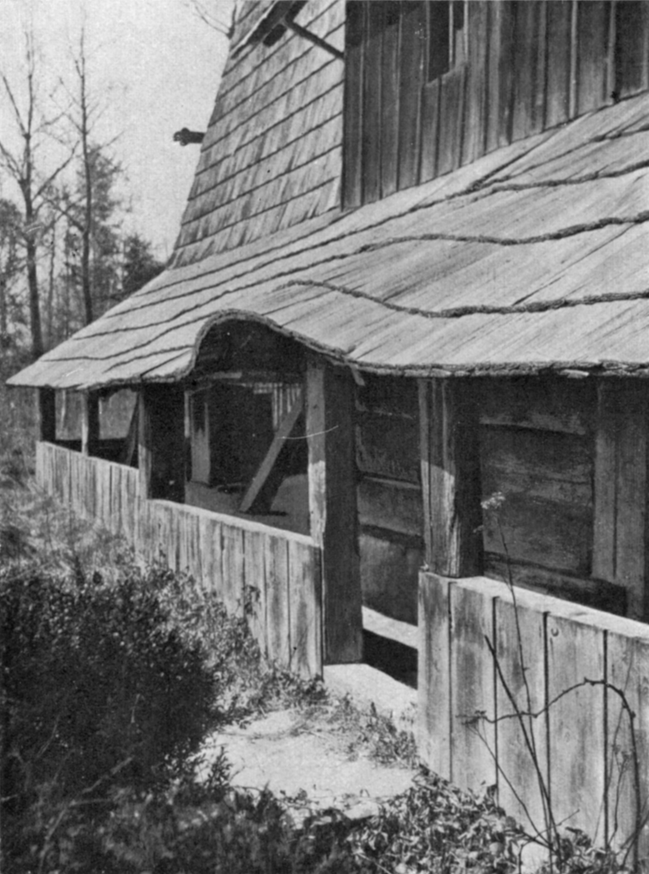 Gůty (Těšín), The Corpus Christi Church, The Ambit of the Church.